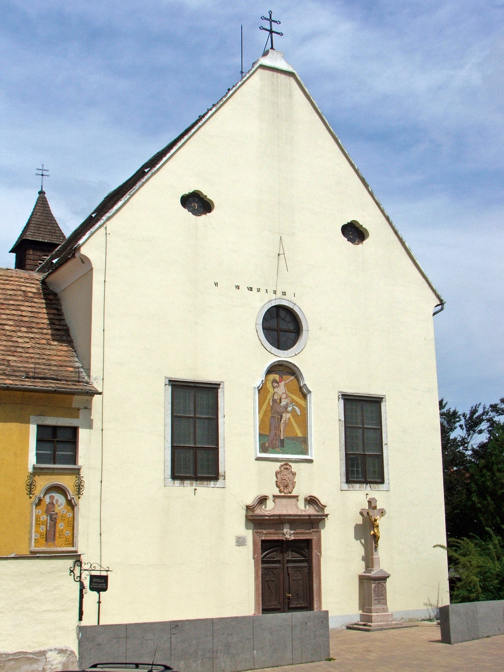 Capuchin church in Tata This is a photo of a monument in Hungary, Identifier: 6405